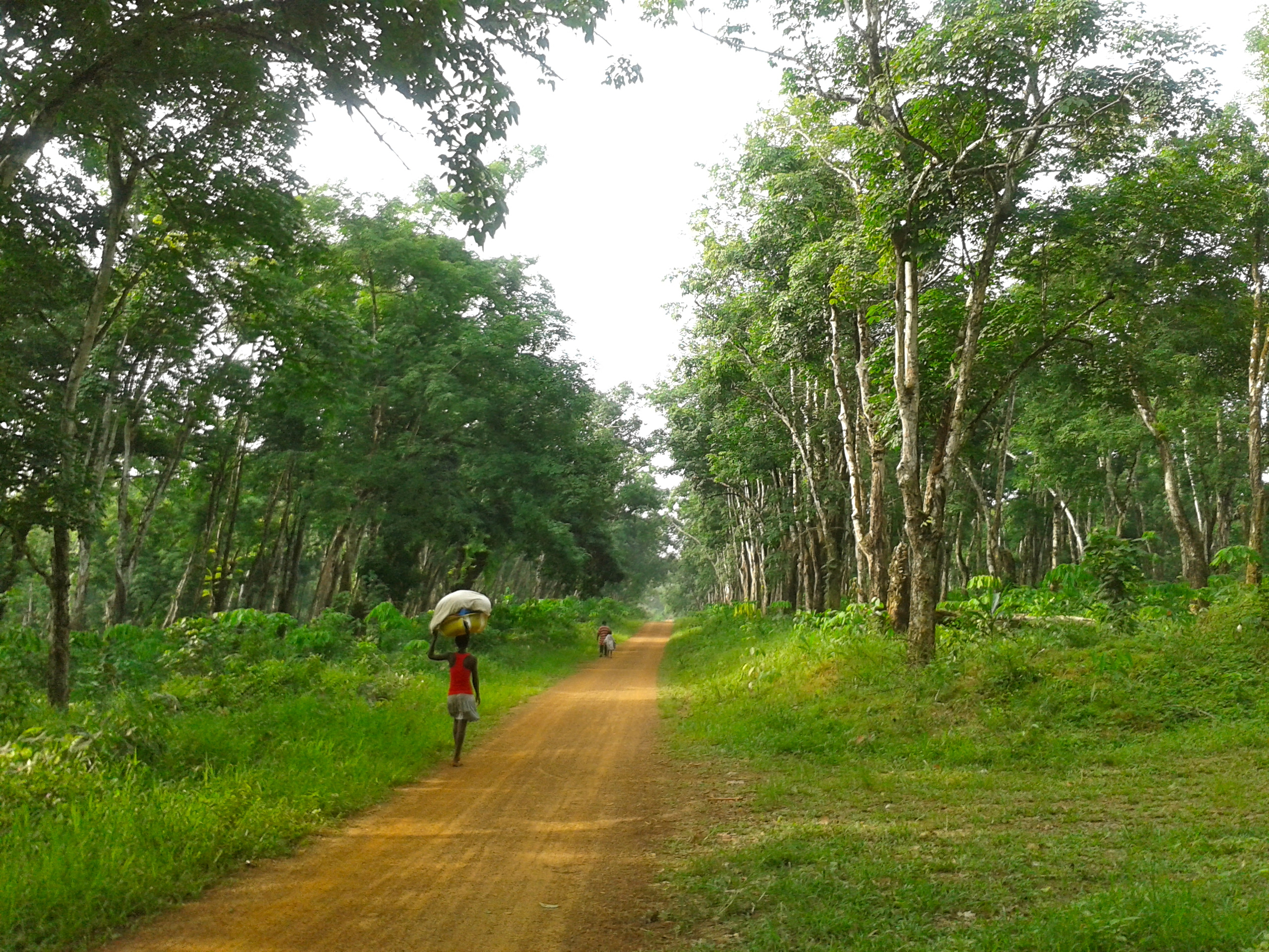 Rubber Tree Plantation in Margibi County, Liberia with family walking down a dirt track carrying Agricultural Products